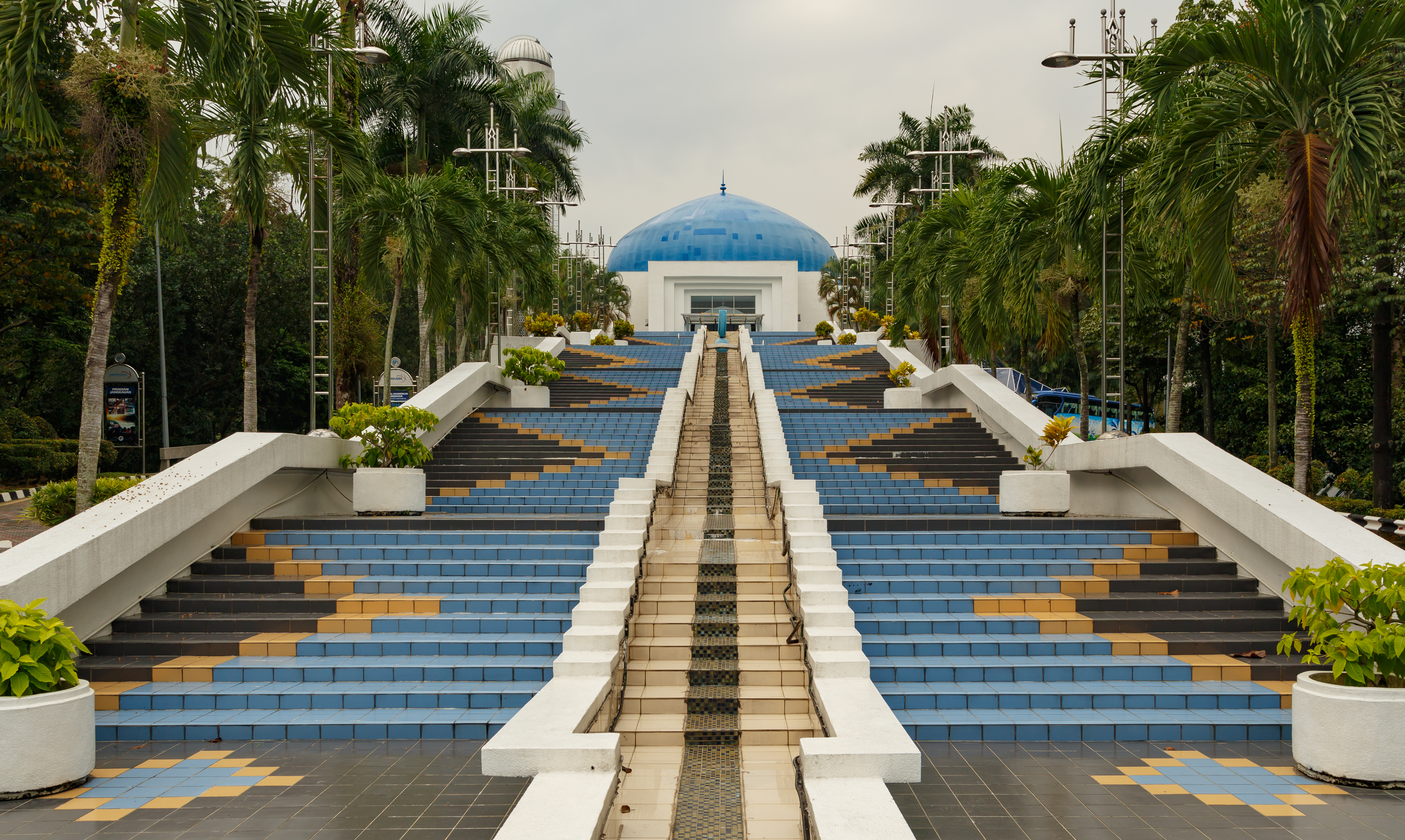 Kuala Lumpur, Sabah: Stairs to Planetarium Negara (National Planetarium)